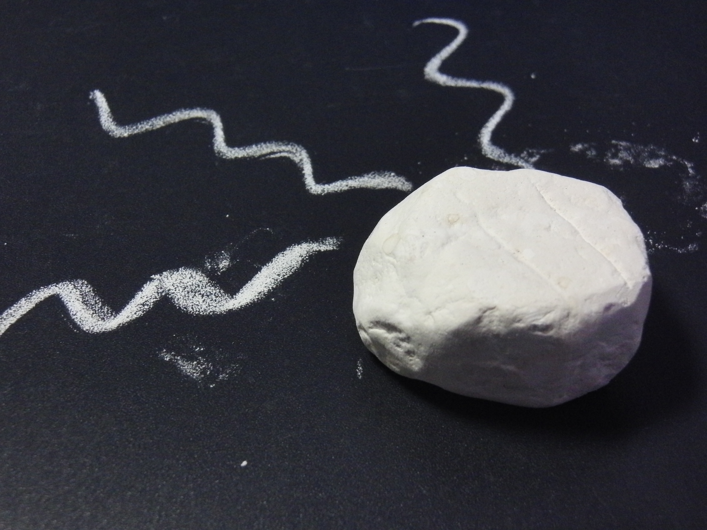 Kaolinite